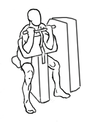 an exercise of biceps